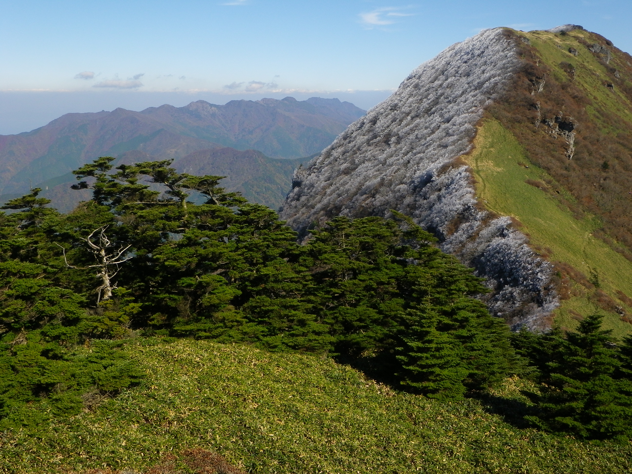 Abies veitchii var. sikokiana on Mount Sasa (Sasagamine), Shikoku, Japan